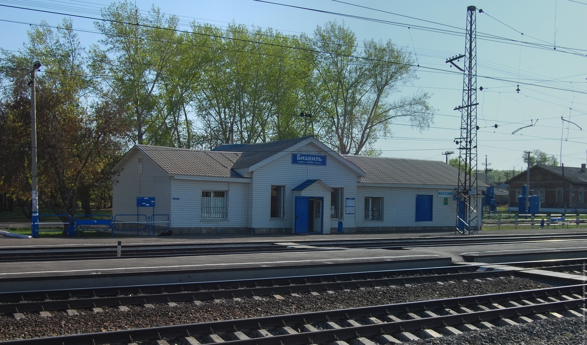 Bishkil station on South Ural Railway, Russia